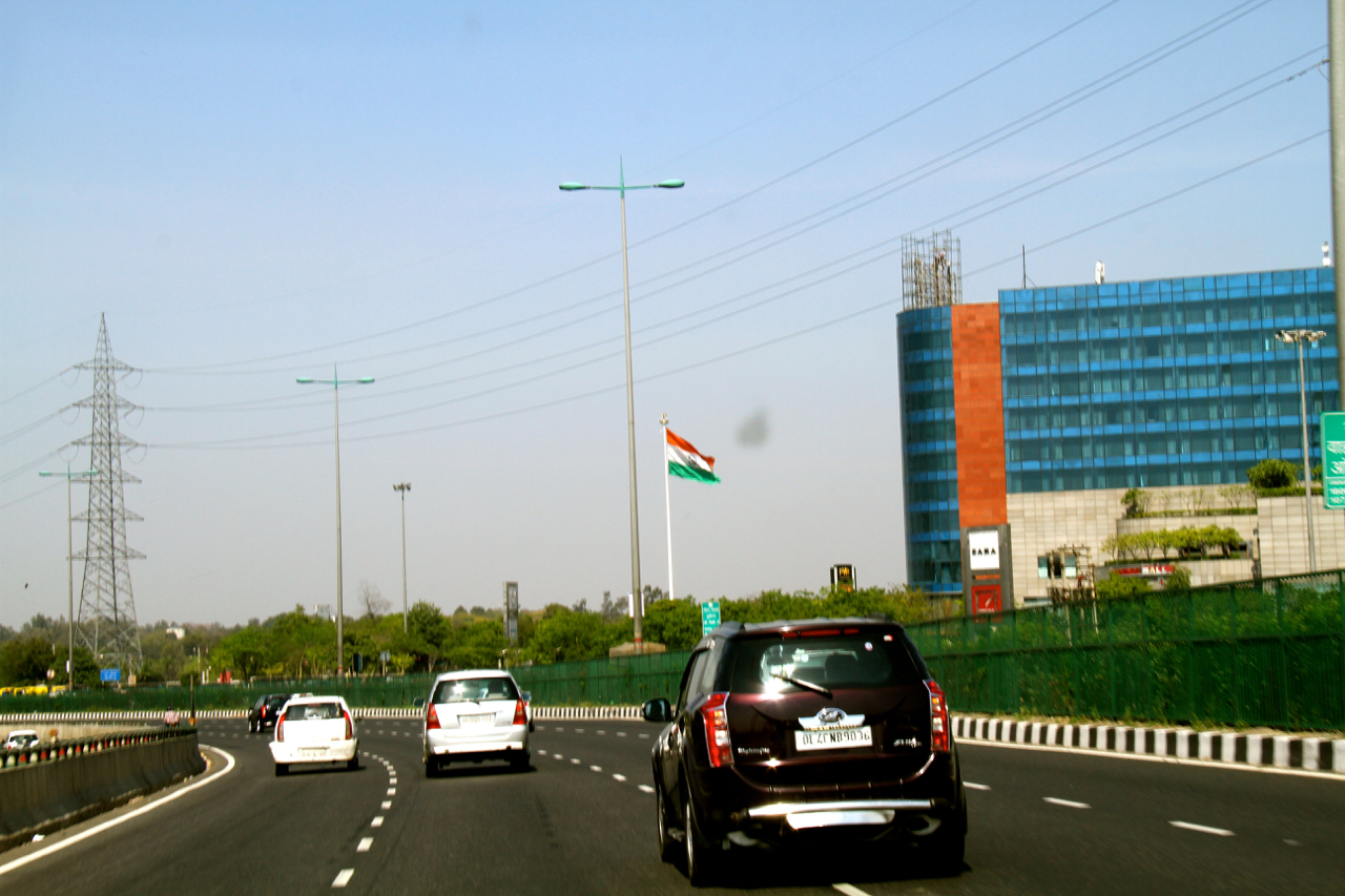 4+ lane highways in India with Industrial corridor, road network from Jaipur to Delhi airport Rajasthan, Haryana and Delhi